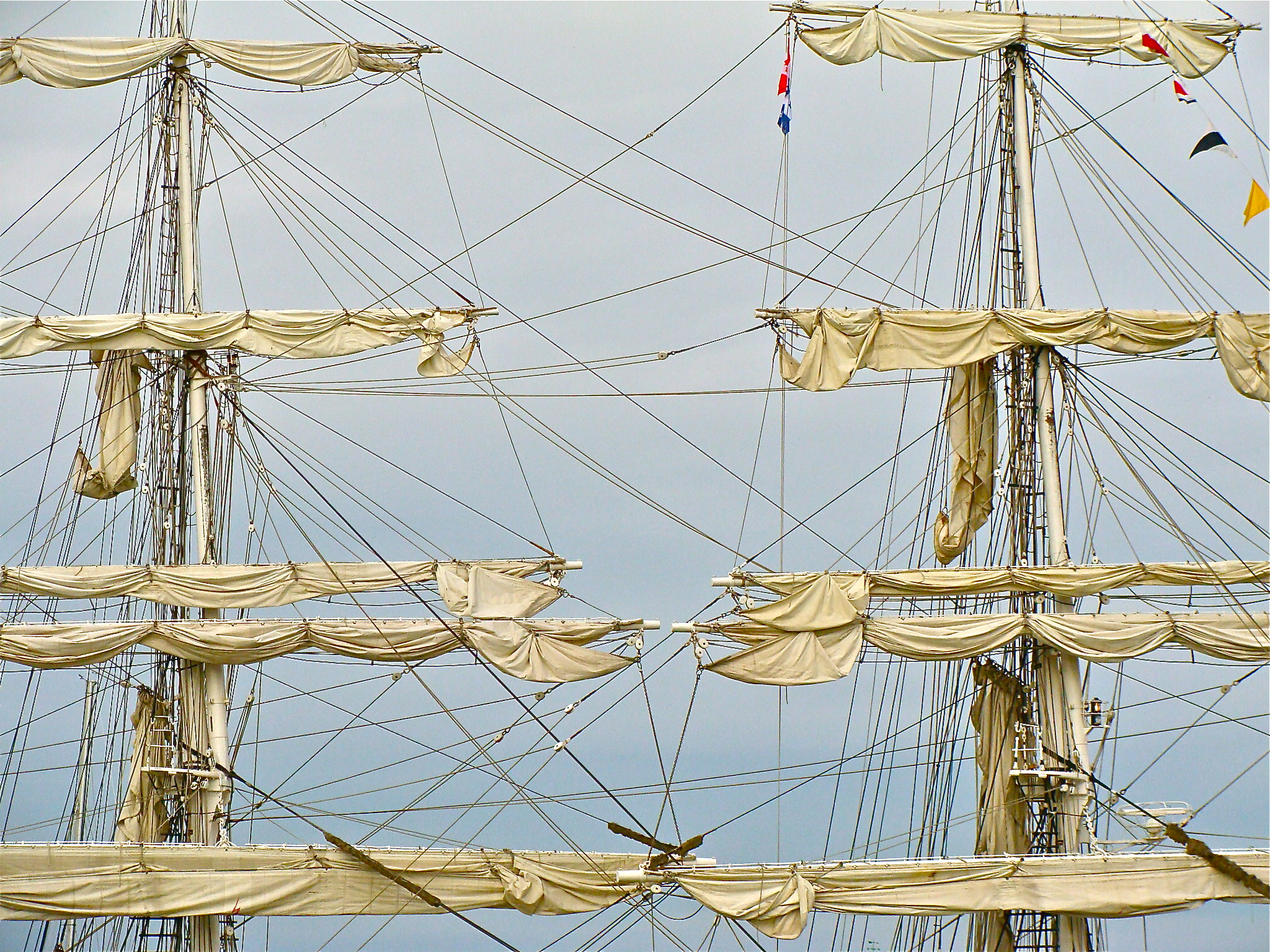 Part of two masts of the french three-masts barque BELEM